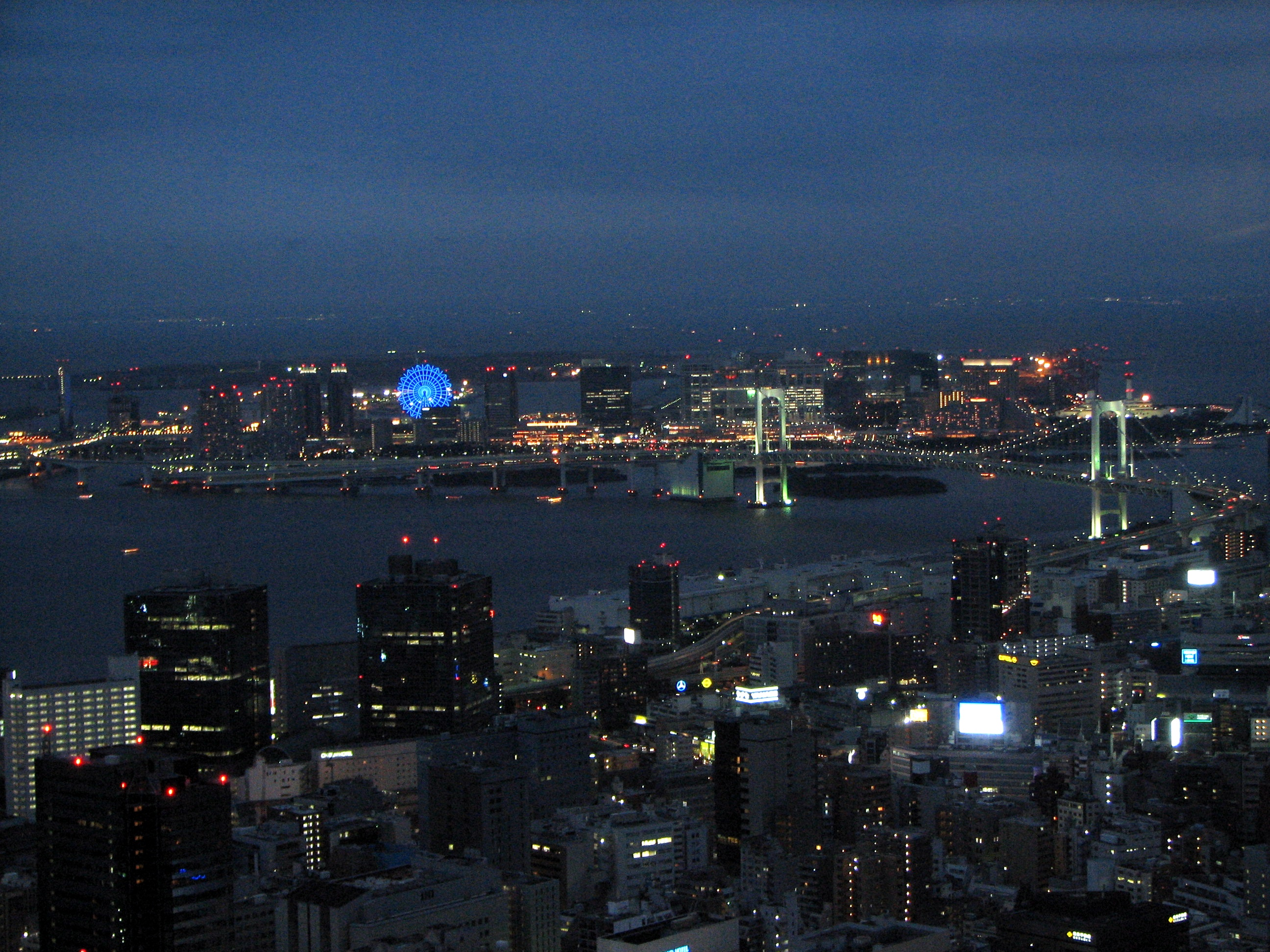 Odaiba and the Raibow Bridge by night. View from Tokyo Tower.